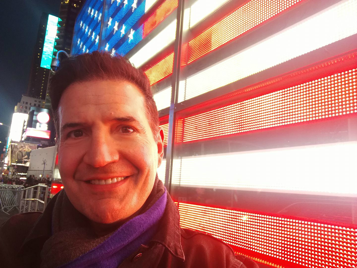 Janicello in Times Square, November 2017